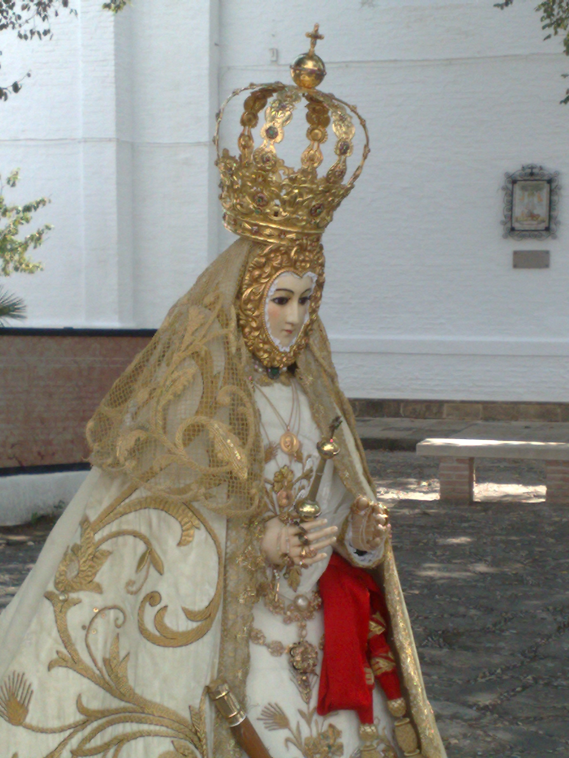 VIRGIN FIELD CAÑETE.Córdoba